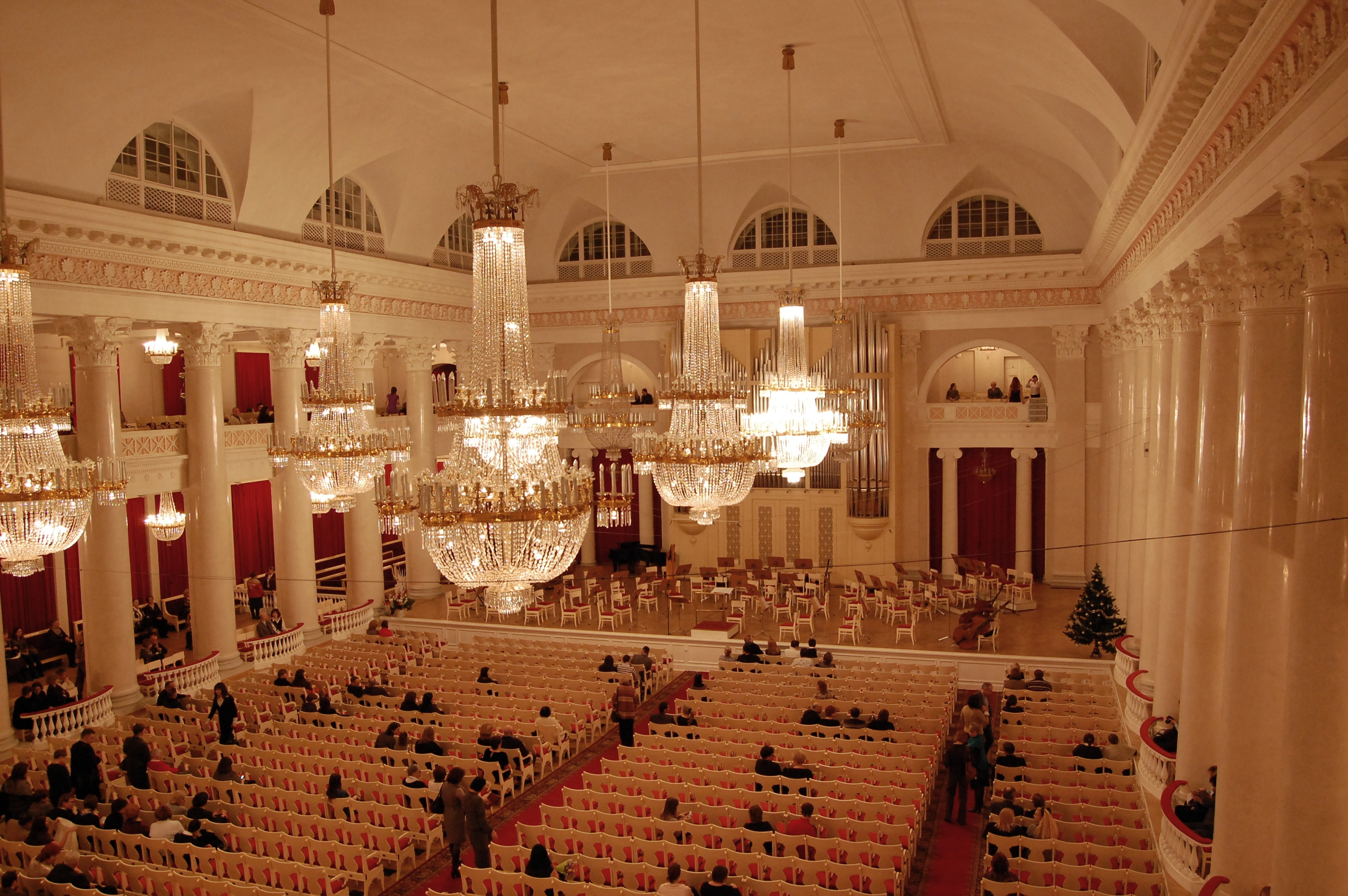 Saint Petersburg Philharmonia (the Grand Hall)